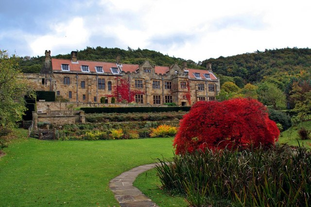 Guest House, Mount Grace Priory